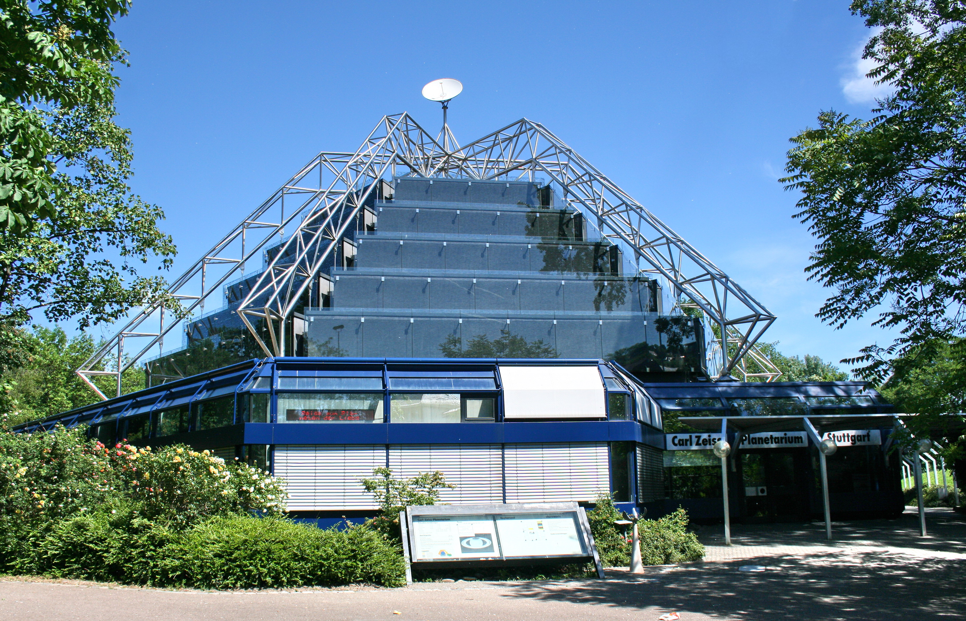 Carl-Zeiss-Planetarium, Stuttgart